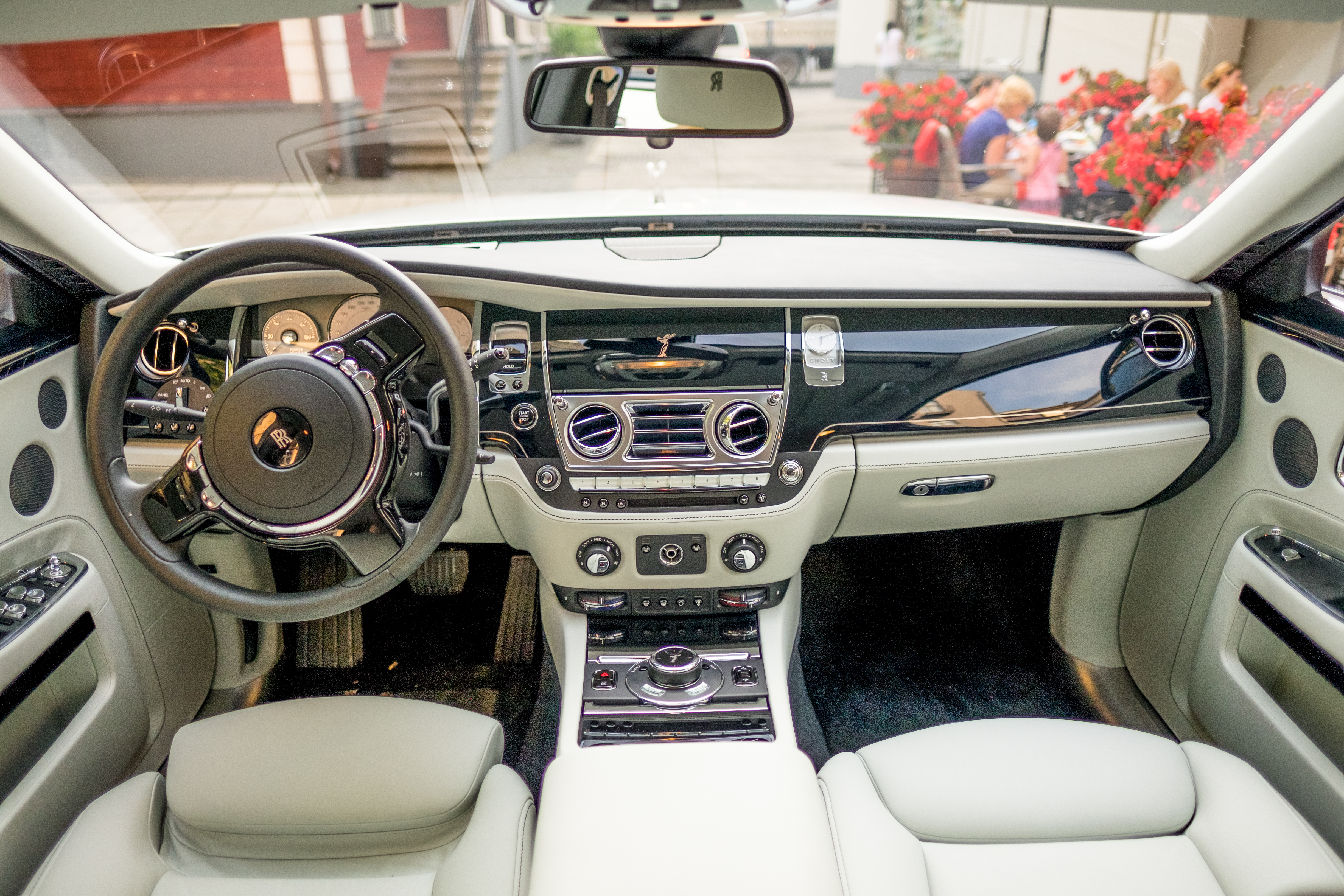 Rolls Royce Ghost 2015